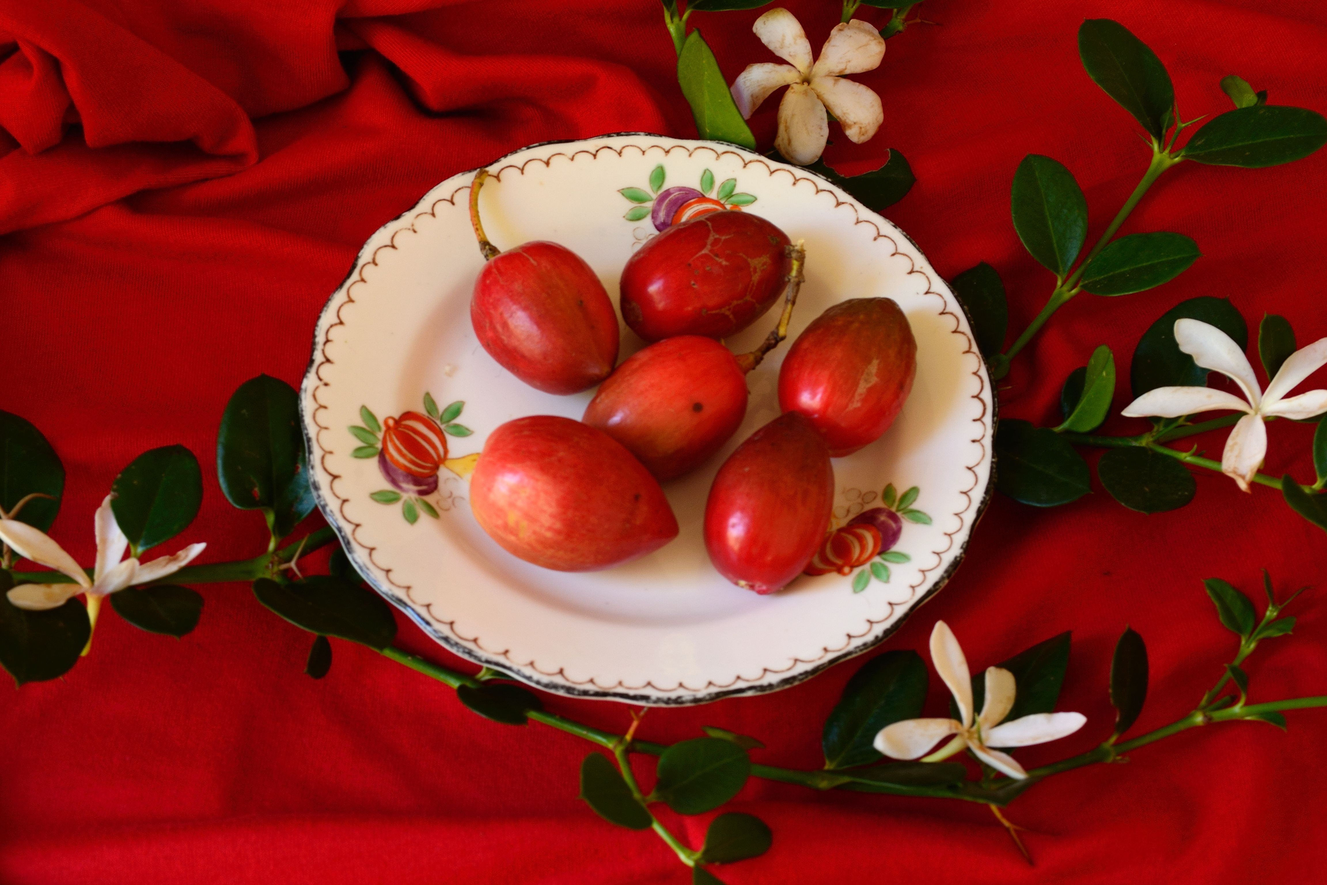 A traditional food plant the Num num fruit or Carissa Macrocarpa from the Num Num tree is indigenous to South Africa and grows on sandy coastlines. The sharp tasting berries are high in vitamin C and can be eaten straight off the tree or made into jams and jellies. This is an image of food from South Africa